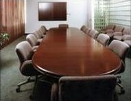 Board Room